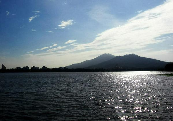 Xuanwu Lake in Nanjing, China, at the foot of Mount Purple